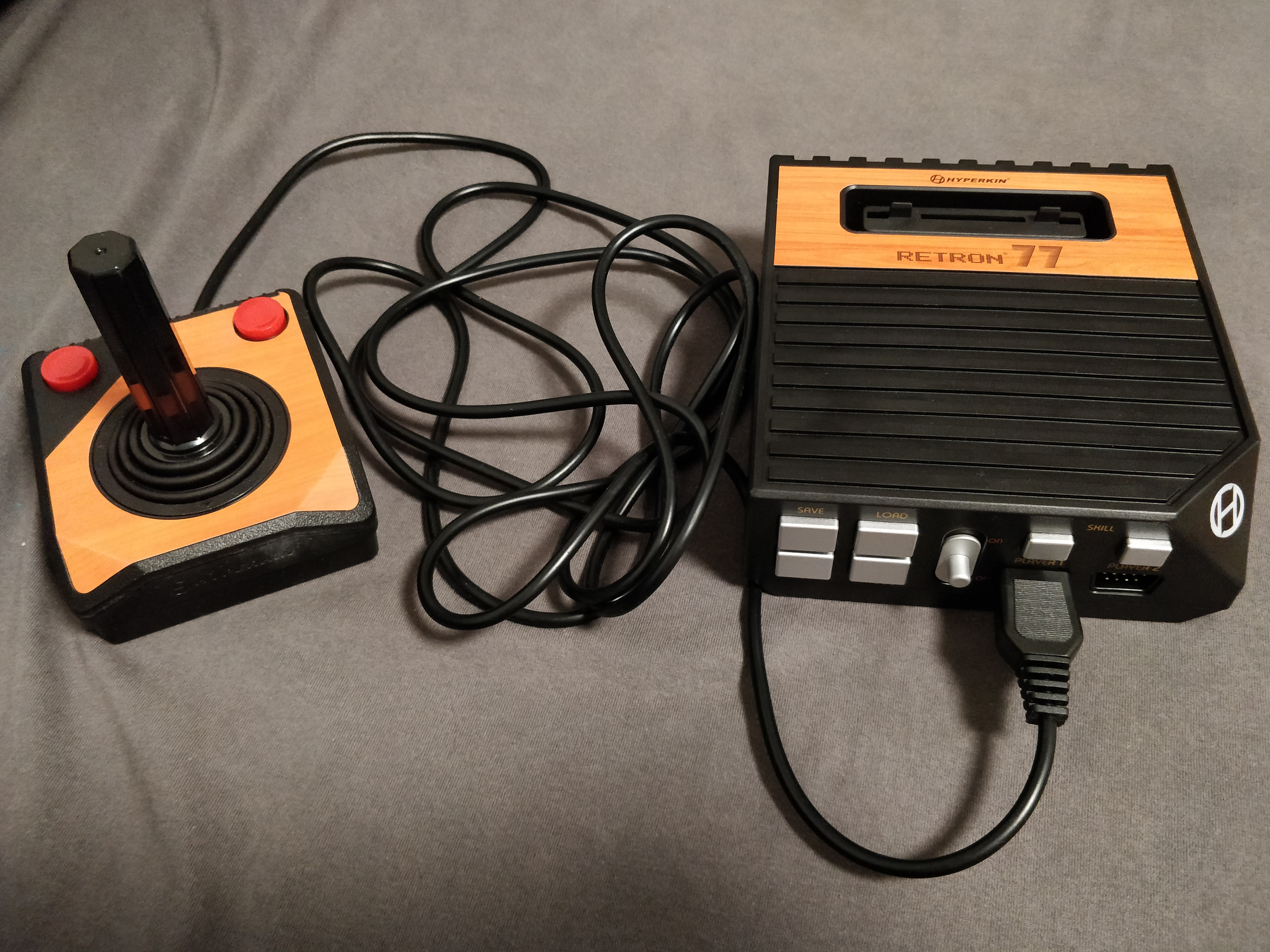 Retron 77 gaming console